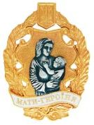 Badge of the honorable title Mother Heroine (Ukraine)